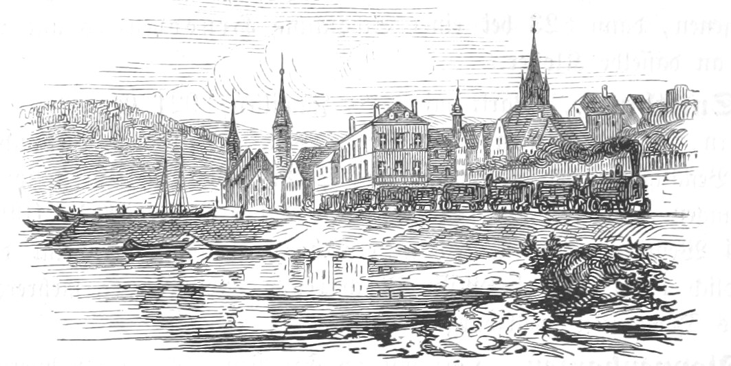 Image extracted from page 882 of above (page number relates to the digital version and can differ from the pagination within the book). Original held and digitised by the British Library. Note: The colours, contrast and appearance of these illustrations are unlikely to be true to life. They are derived from scanned images that have been enhanced for machine interpretation and have been altered from their originals.